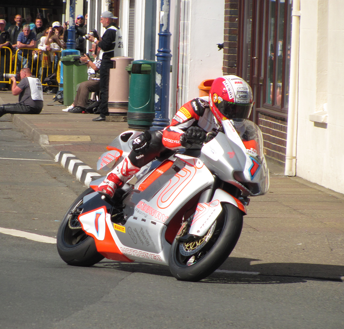 Description : Isle of Man TT Races Date : 4th June 2012 Source : / Agljones at en.wikipedia Permission See below.